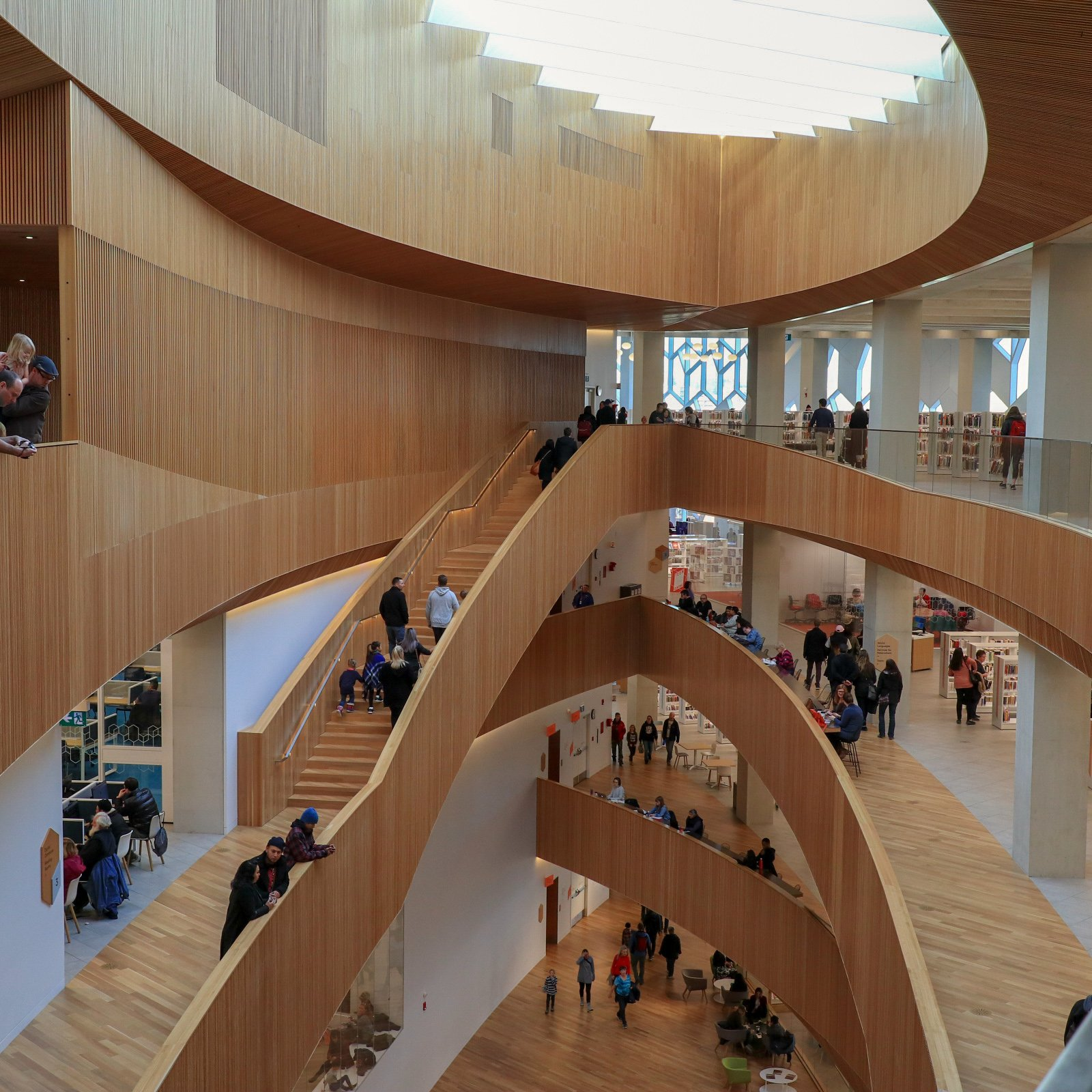 calgary #alberta #centrallibrary